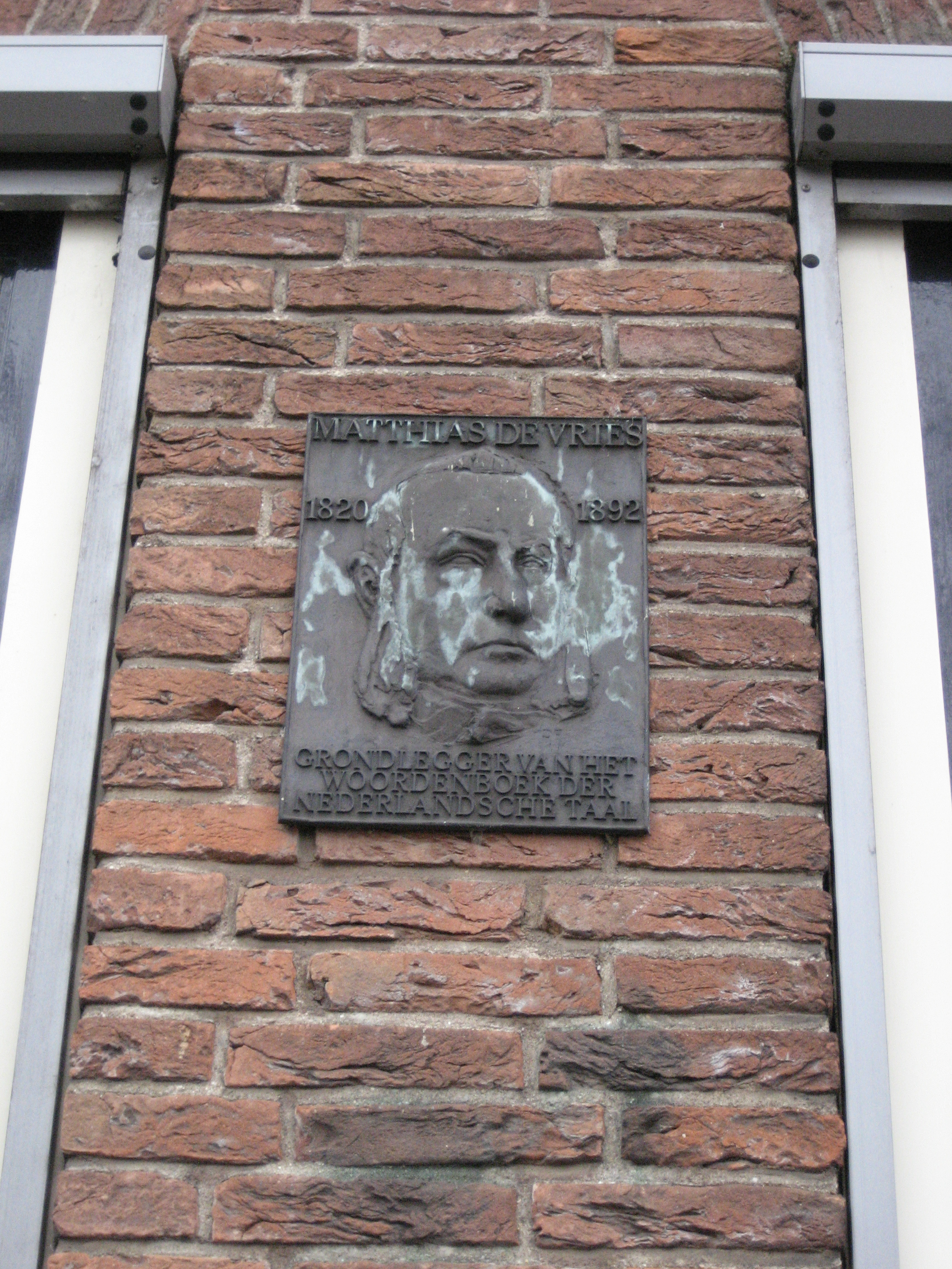 Plaque Matthias de Vries, Rapenburg 68, Leiden (The Netherlands)